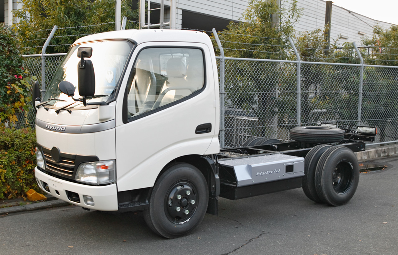 Hino Dutro Hybrid